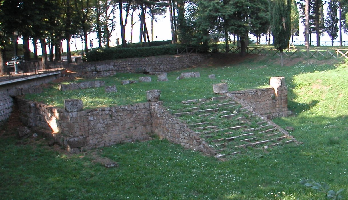 A picture of the remnants of an Etruscan temple in Orvieto, Italy.